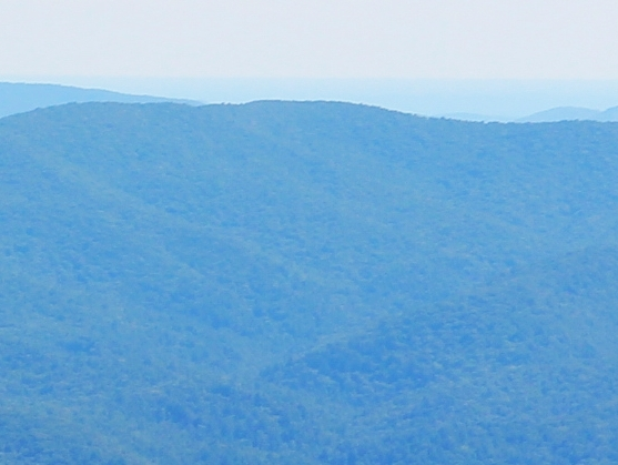 Young Lick viewed from Brasstown Bald